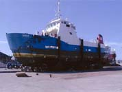 The Shetland Islands Council car ferry, MV Bigga, on a ship's cradle in Fraserburg Scotland